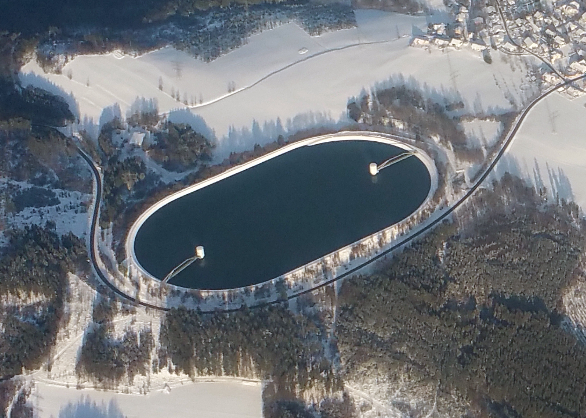 Germany, approach into ZRH across the Black Forest